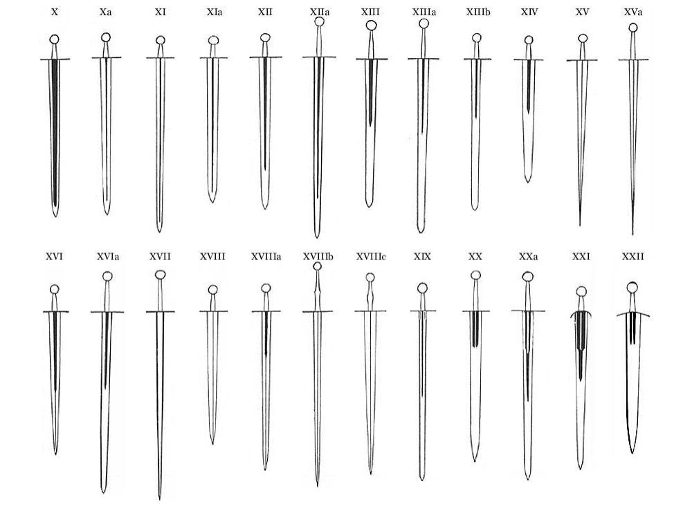 A diagram of several types of Medieval longswords.